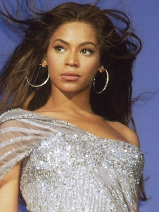 Beyoncé Knowles performing "Listen" during "The Beyoncé Experience" in Munich, Germany.